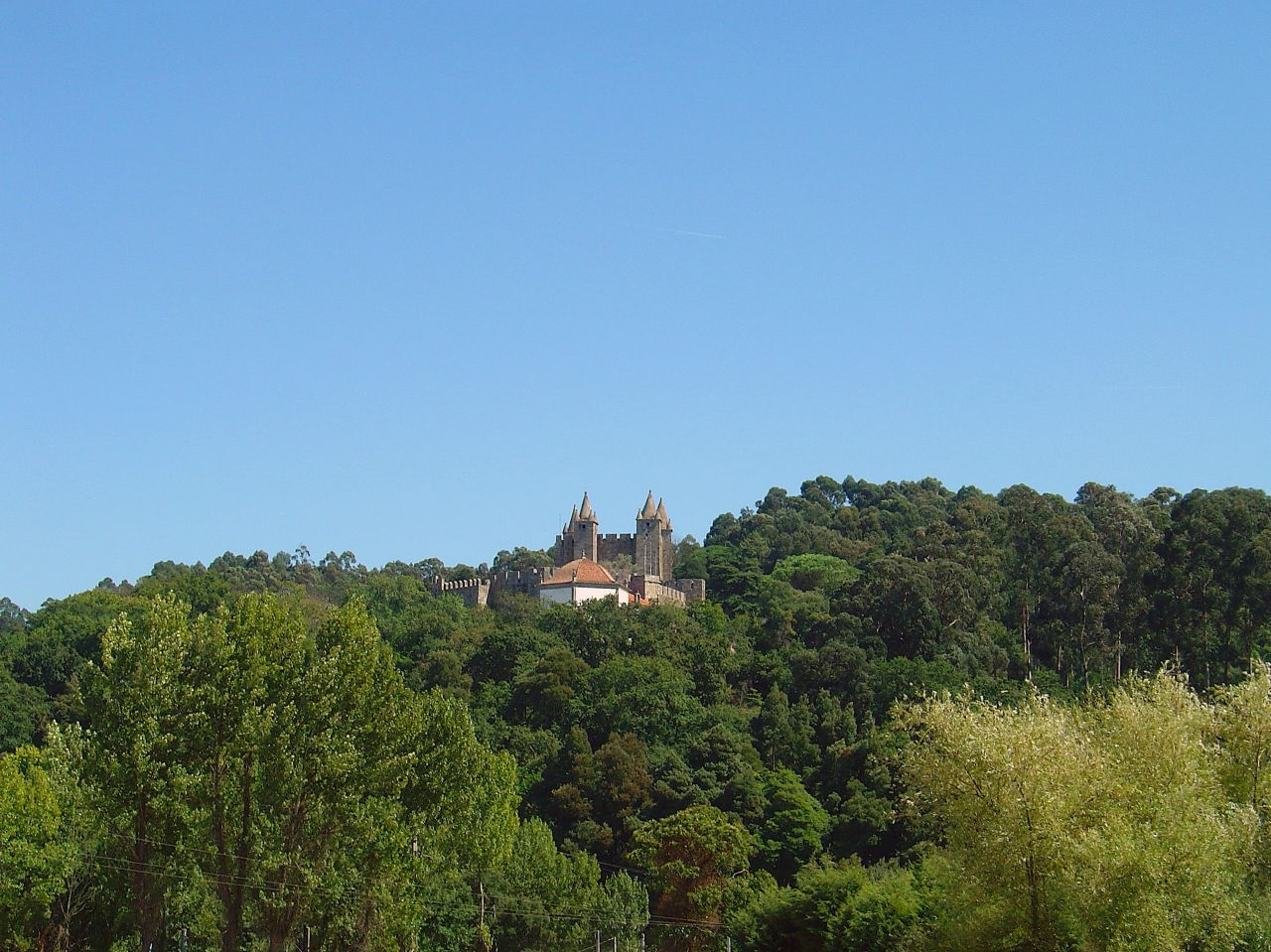 See where this picture was taken. [?]